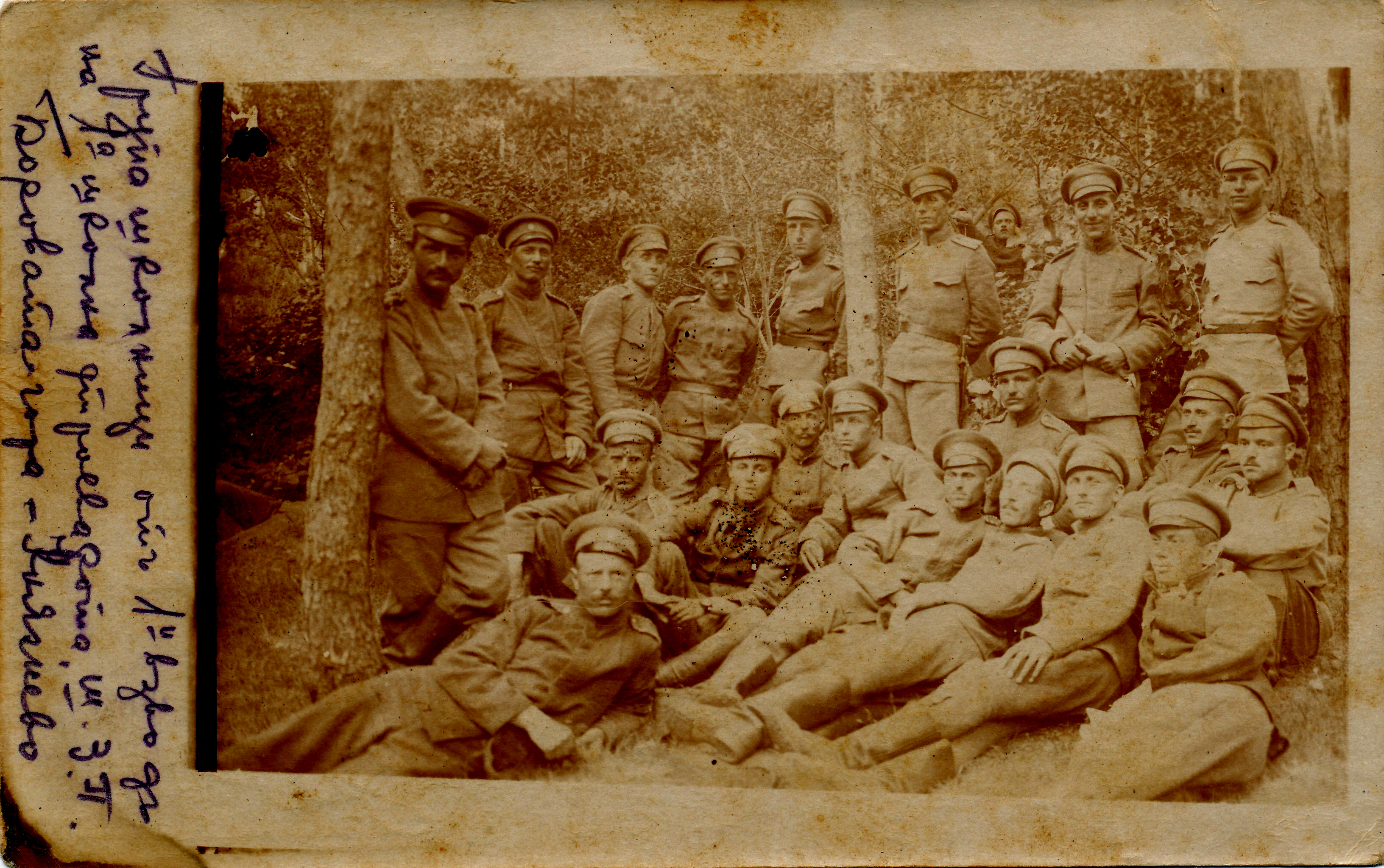 Bulgarian army 1-th platoon, 1-th company - 5.08.1918, Kniajevo